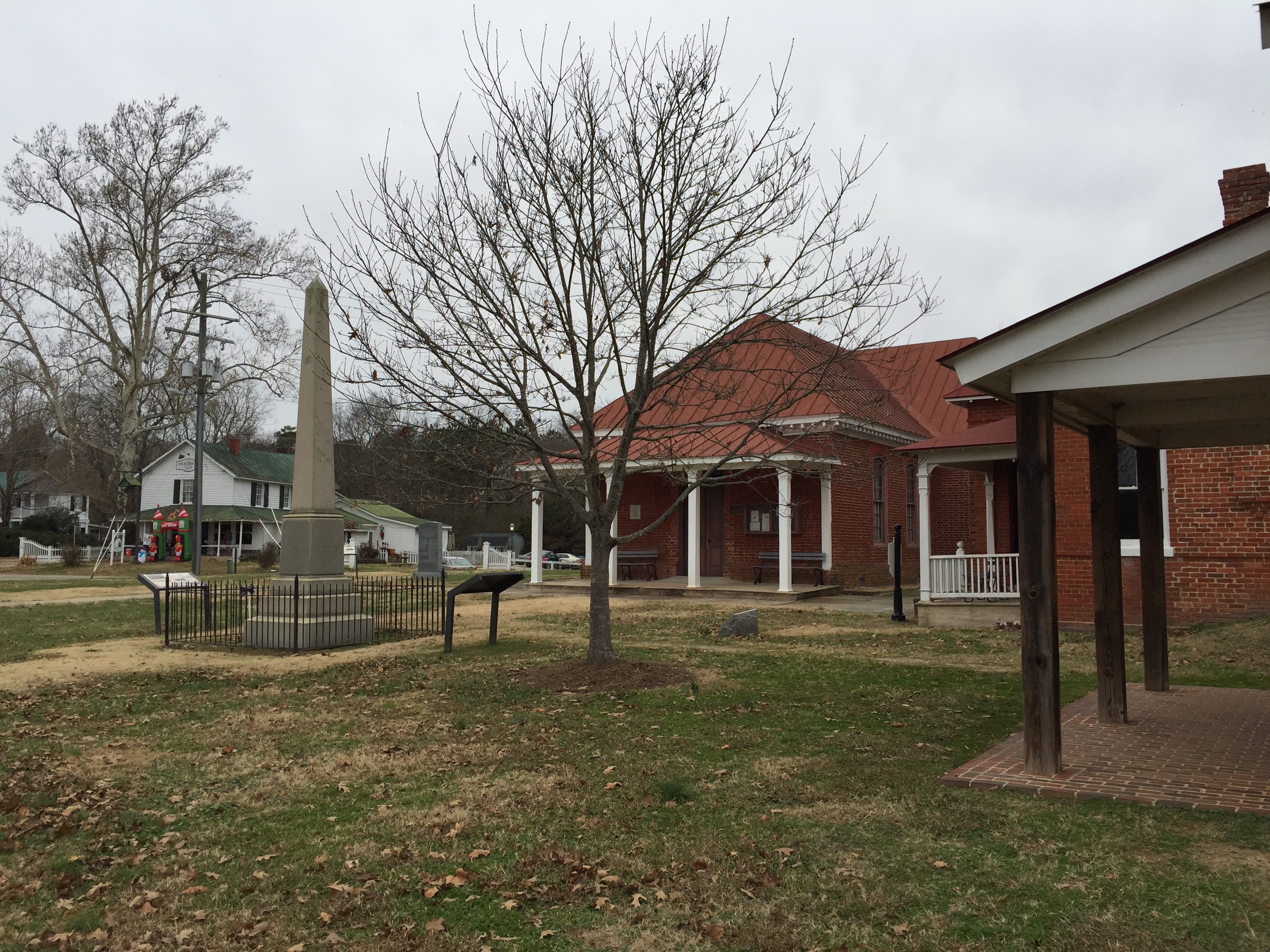 Charles City, Virginia 2018